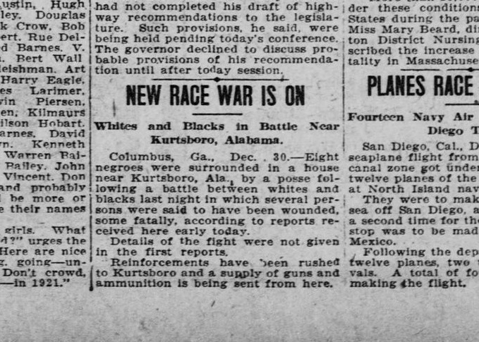 Front Page of The Topeka State Journal. December 30, 1920